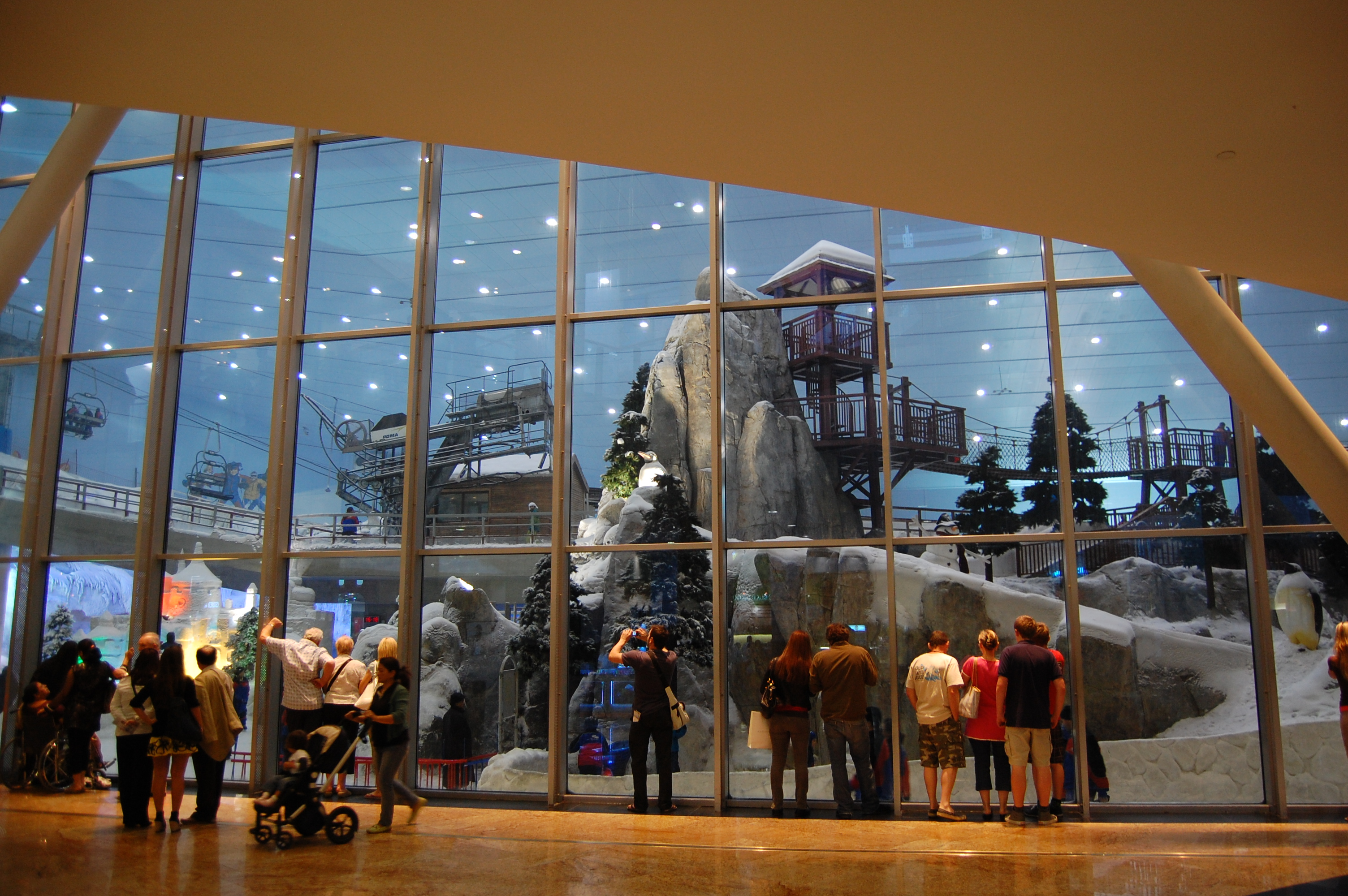 Picture of Ski Dubai from Mall of Emirates.